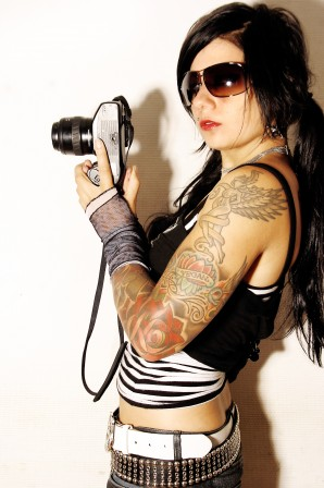 cindy frey girls at the rock show